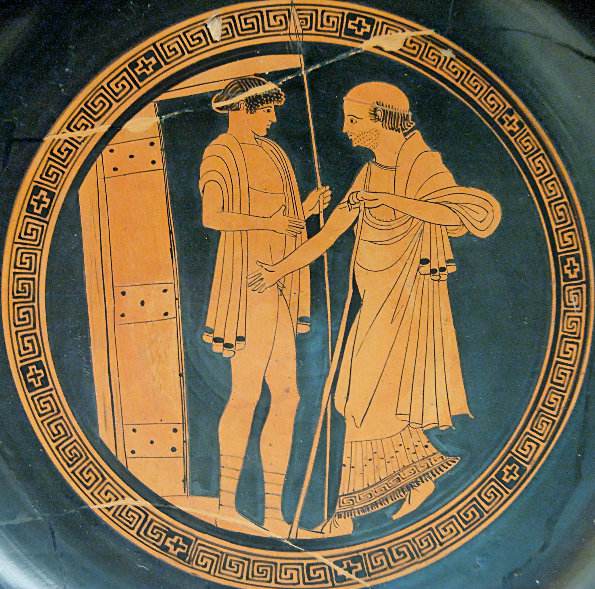 Priam (right) about to enter Achilles' hut to ransom the body of his son Hektor; the youth on the left may be one of Achilles' attendants or Hermes in disguise. Attic red-figured kylix, ca. 480 BC. Said to be from Vulci.